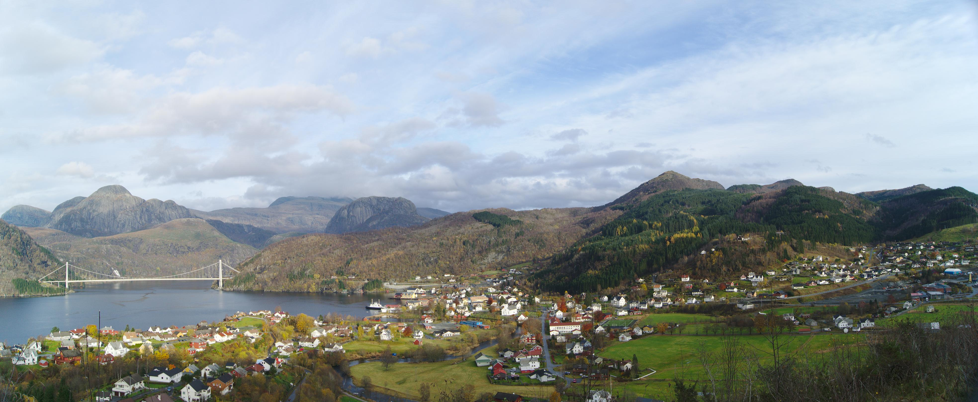 Panorama of the Norwegian village Dale i Sunnfjord. Visible in the background is the new Dalsfjordbridge.